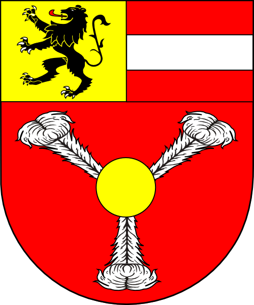 Coat of arms (shield only) of Franz Anton von Harrach, bishop of Vienna (1702 - 1705), archbishop of Salzburg, Austria (1709 - 1727).